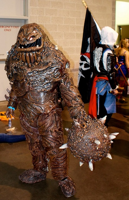 Cosplay of Clayface,2013 RI Comic Con.